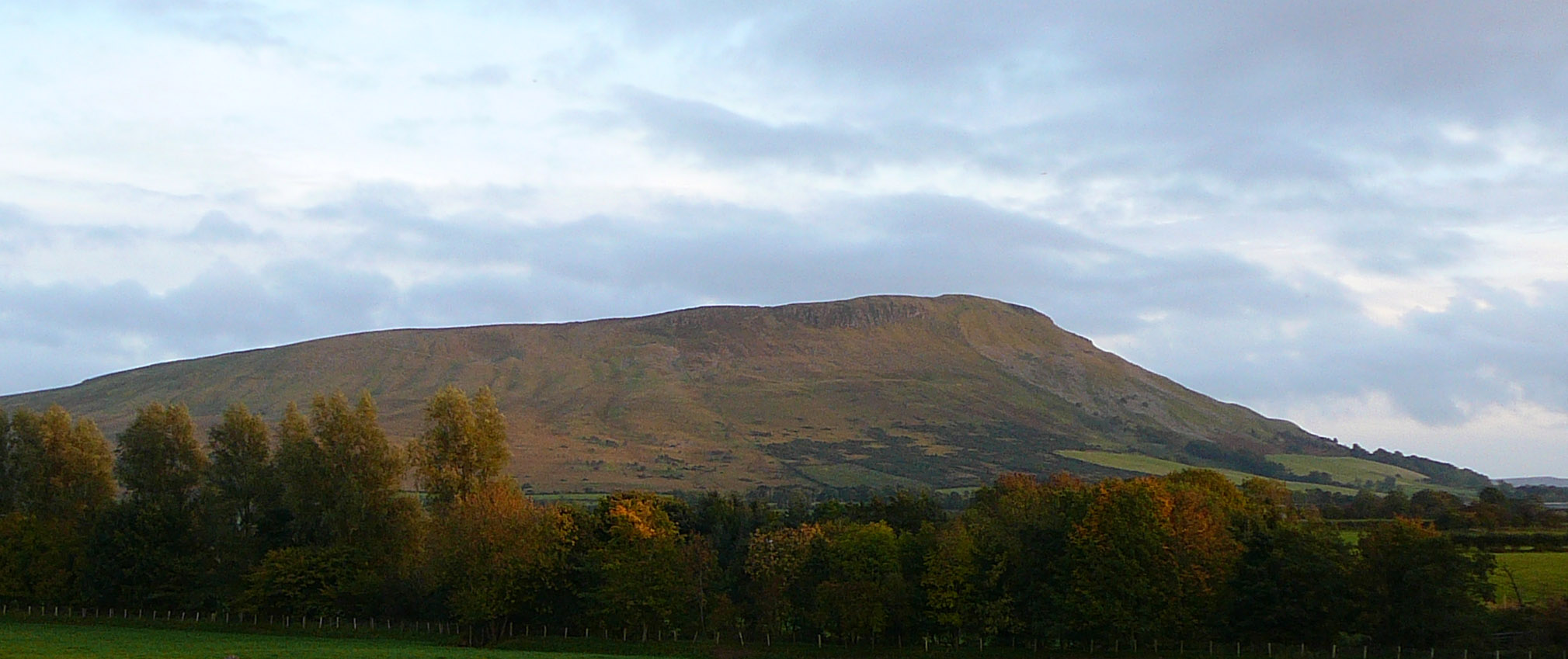 Benbradagh Mountain taken from the North West.